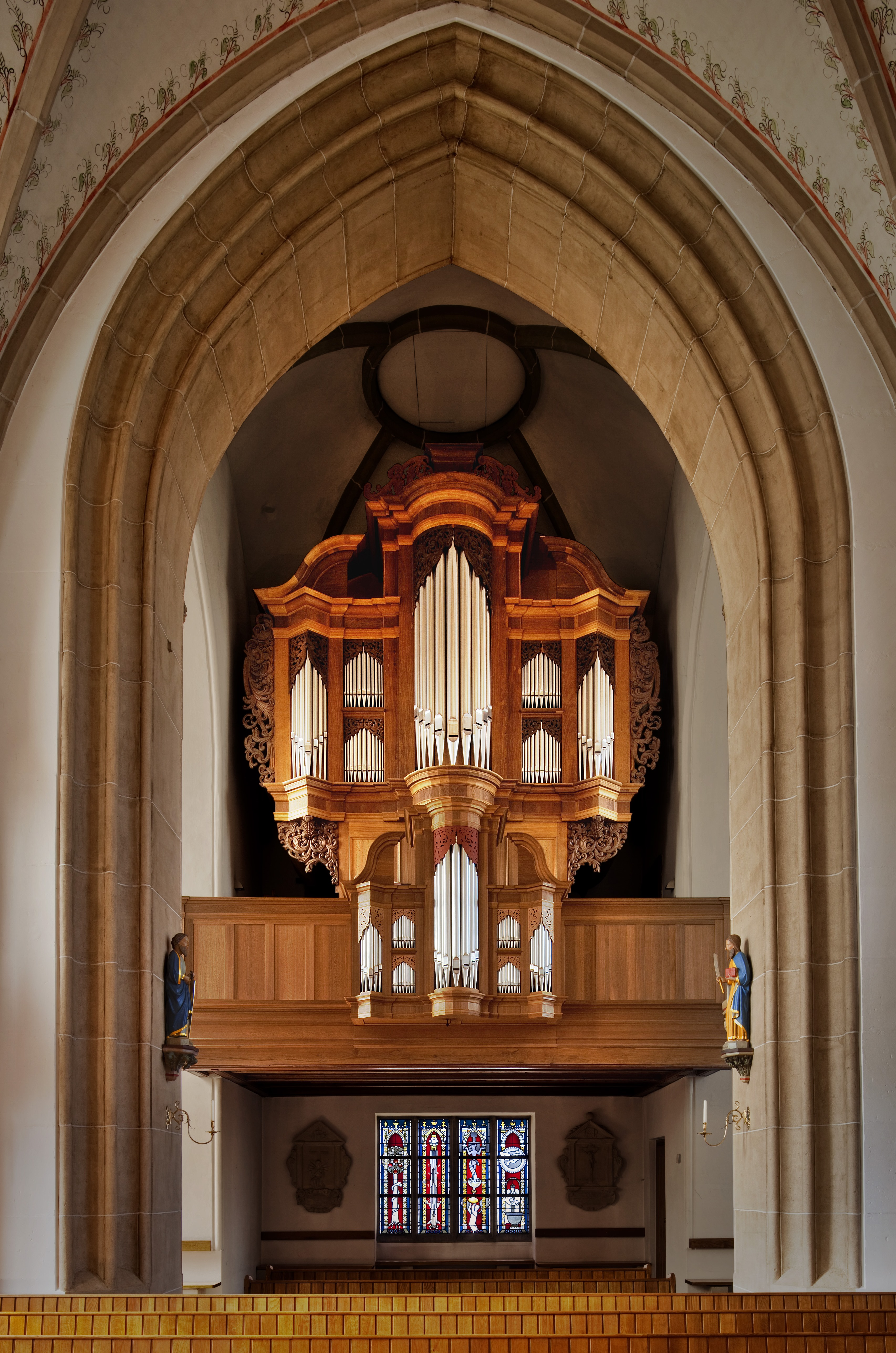 Baroque organ, St. Dionysius, Nordwalde, Germany